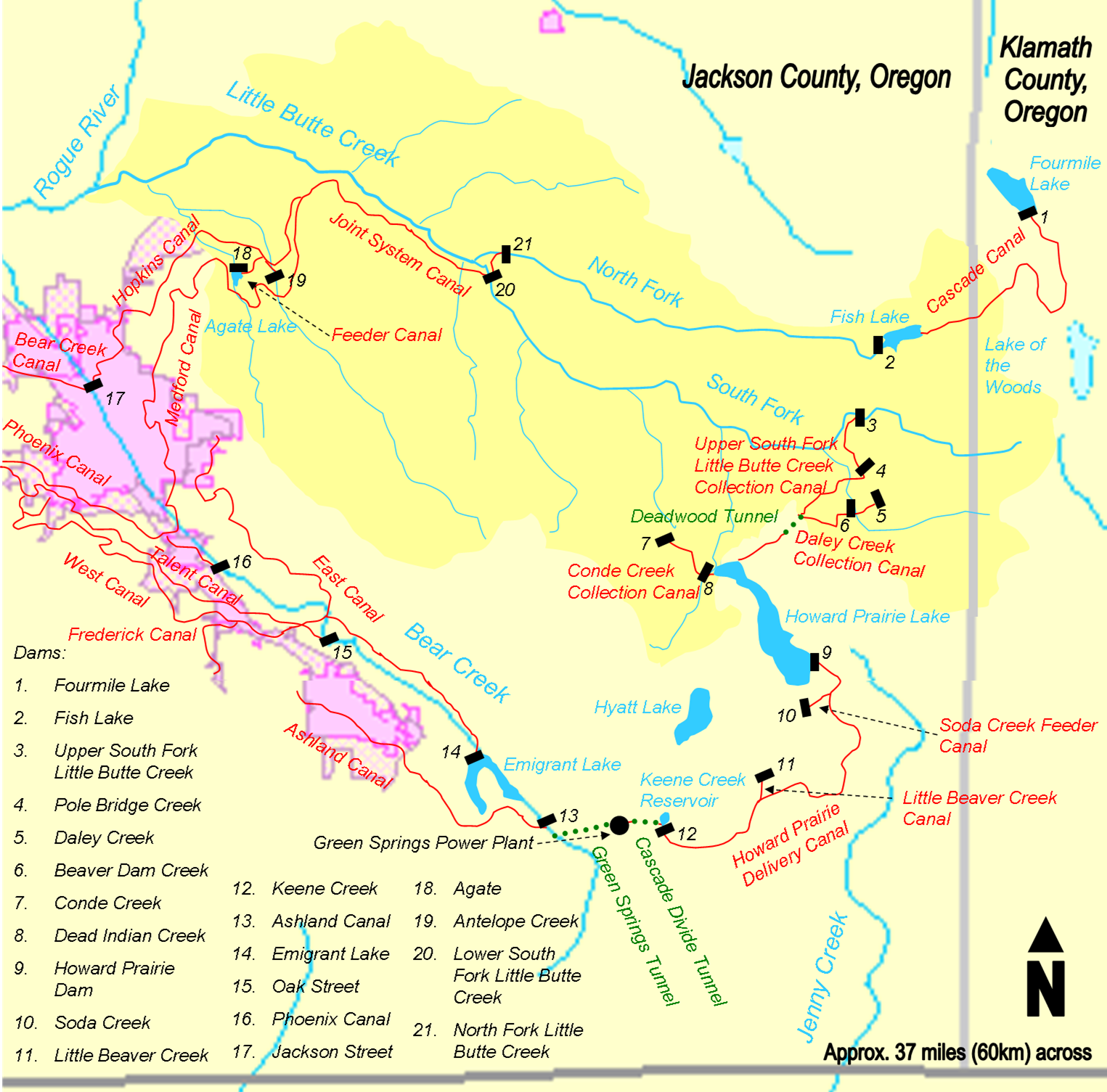 A map of the Little Butte Creek watershed of Oregon. Showing the dams and canals associated with it.